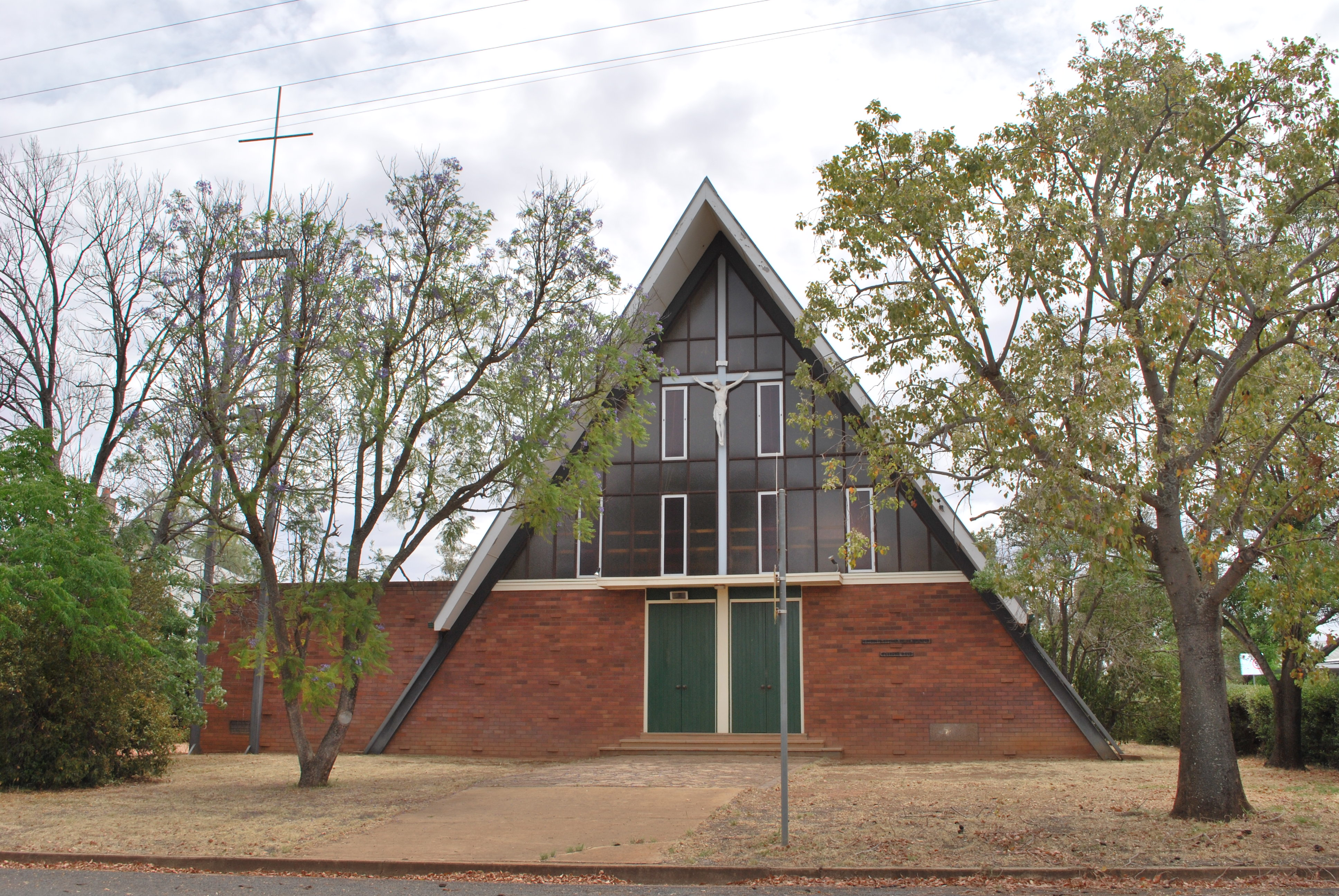 St Michael's Roman Catholic church in Trundle, New South Wales